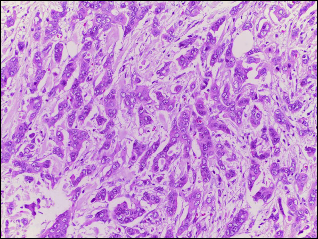 Microscopy shows tubules and solid sheets of malignant epithelium infiltrating into a desmoplastic stroma. A mitotic figure can be seen in the right upper quadrant. [H&E stain 20X]